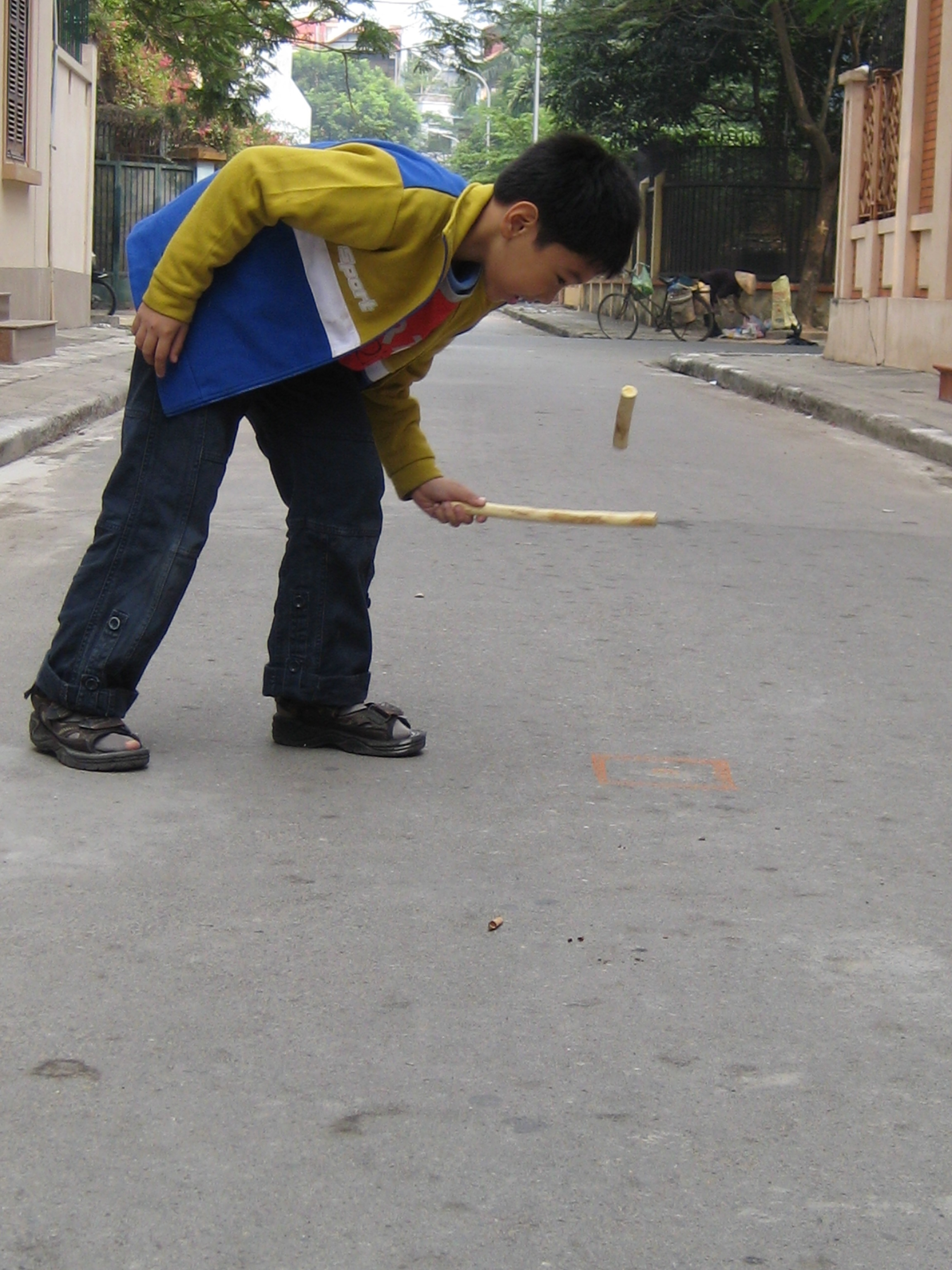 A skill in the Vietnamese traditional game Danh khang (Game With Sticks)